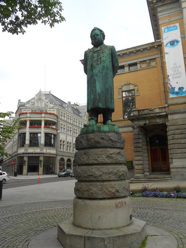 Henrik Ibsen (1828-1906) memorial outside he Nationaltheateret in Oslo, Norway.